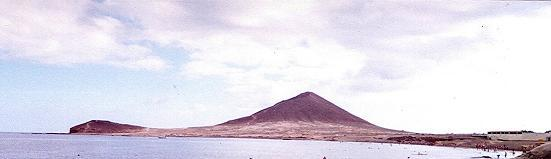 I took this picture in 1997.